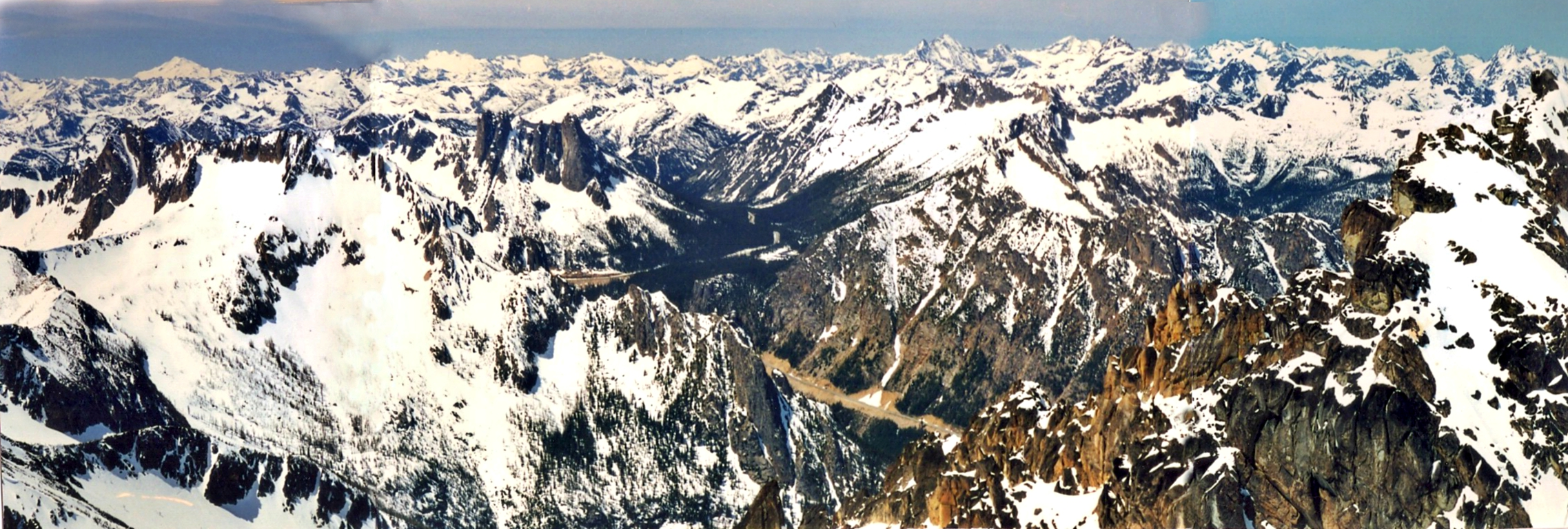 View of the North Cascades and Washington Pass from Silver Star Mountain in June 2000. Three prints stitched together.